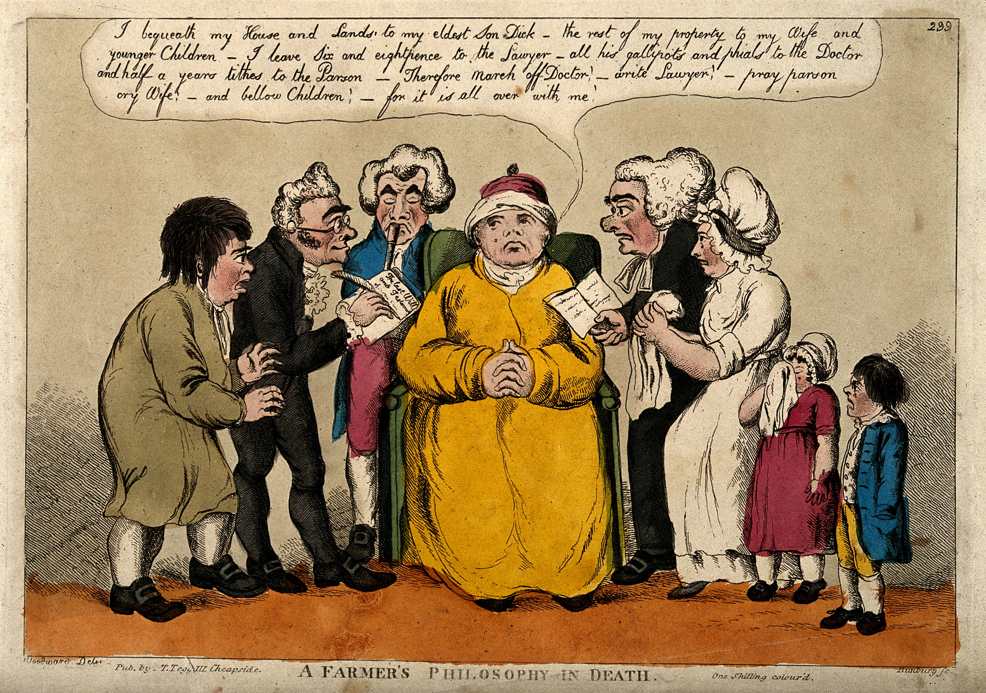 A farmer telling his family, a doctor, a vicar and a lawyer his last will and testament. Coloured etching by H.W. Bunbury, 1809?, after G.M. Woodward. Iconographic Collections Keywords: Henry William Bunbury; George Moutard Woodward